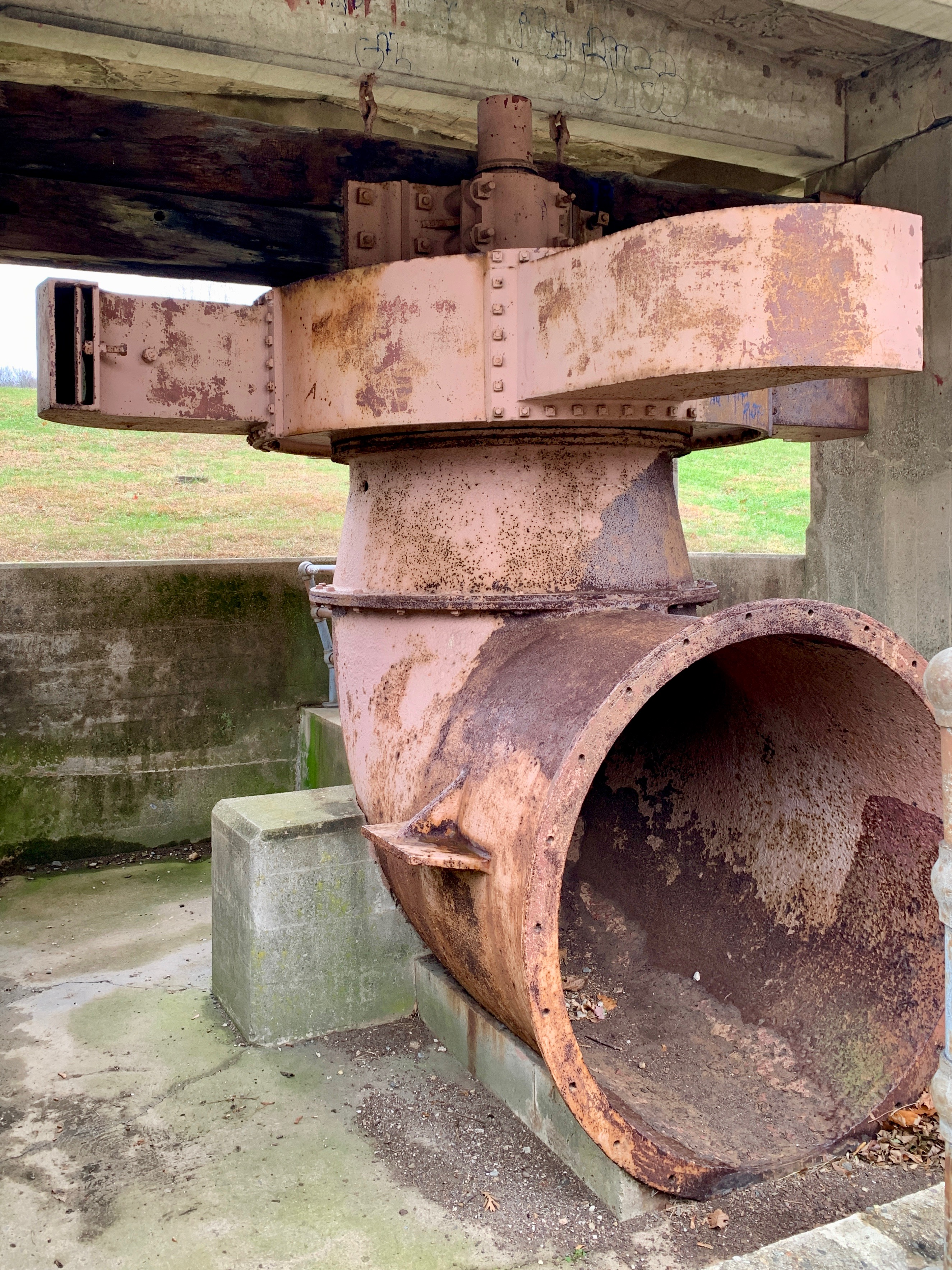 View of the Scotch turbine from the Morris Canal on display at Hopatcong State Park.